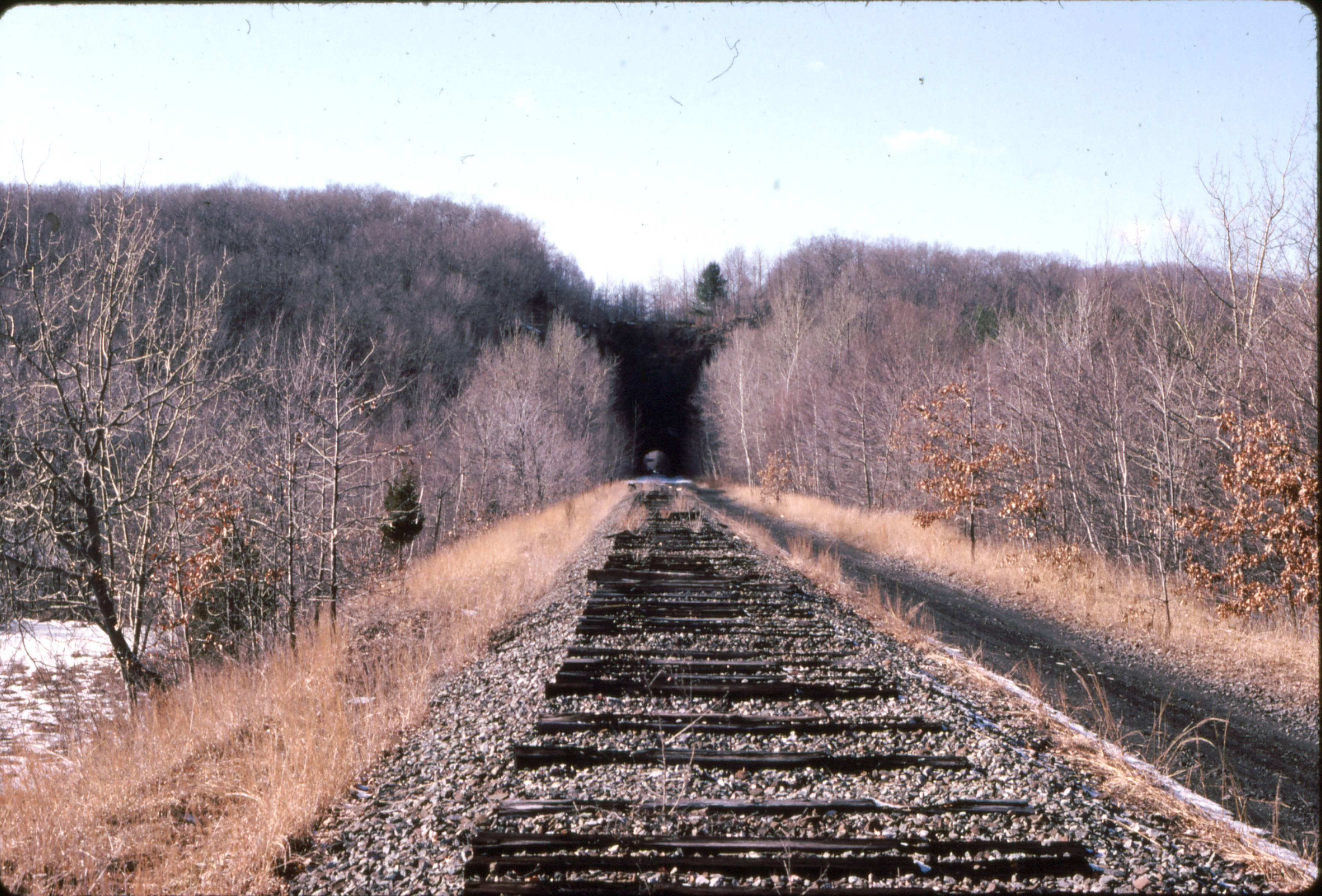 Roseville Tunnel on the Lackawanna Cut-Off in Byram Township looking west in 1989. Chuck Walsh photo